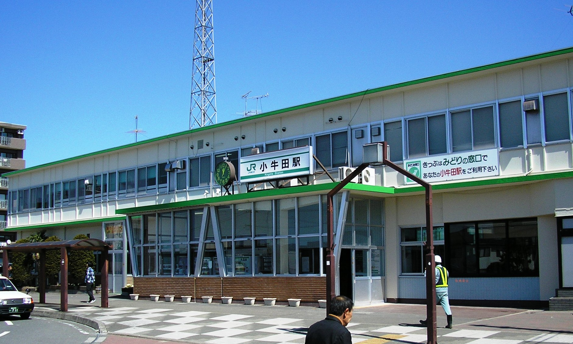 Kogota Eki, or Kogota Rail Station. East Japan Railway Company.